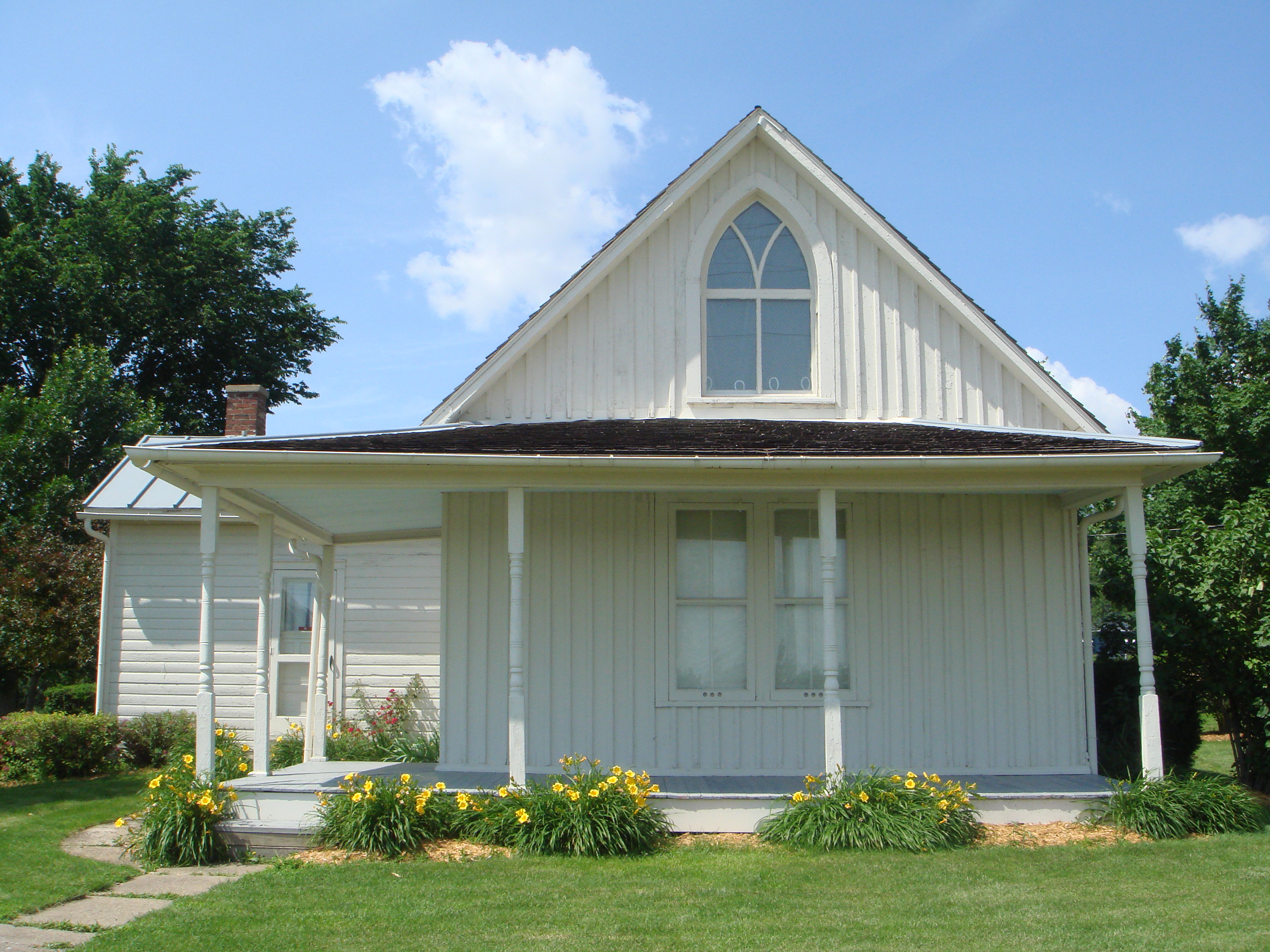 American gothic house (Jessica Strom, Eldon, Iowa)